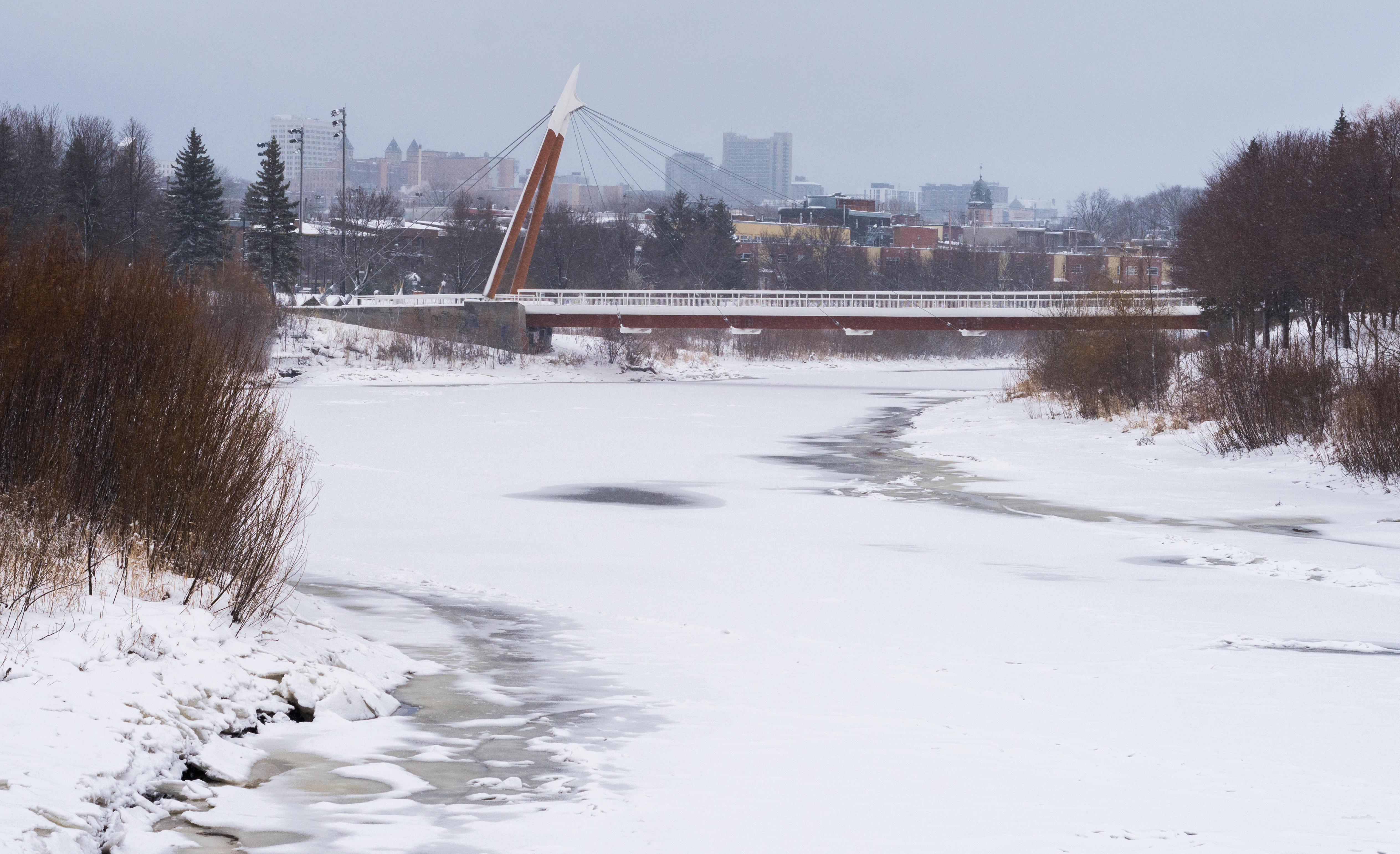 Passerelle des Trois-Soeurs, Quebec city, Canada